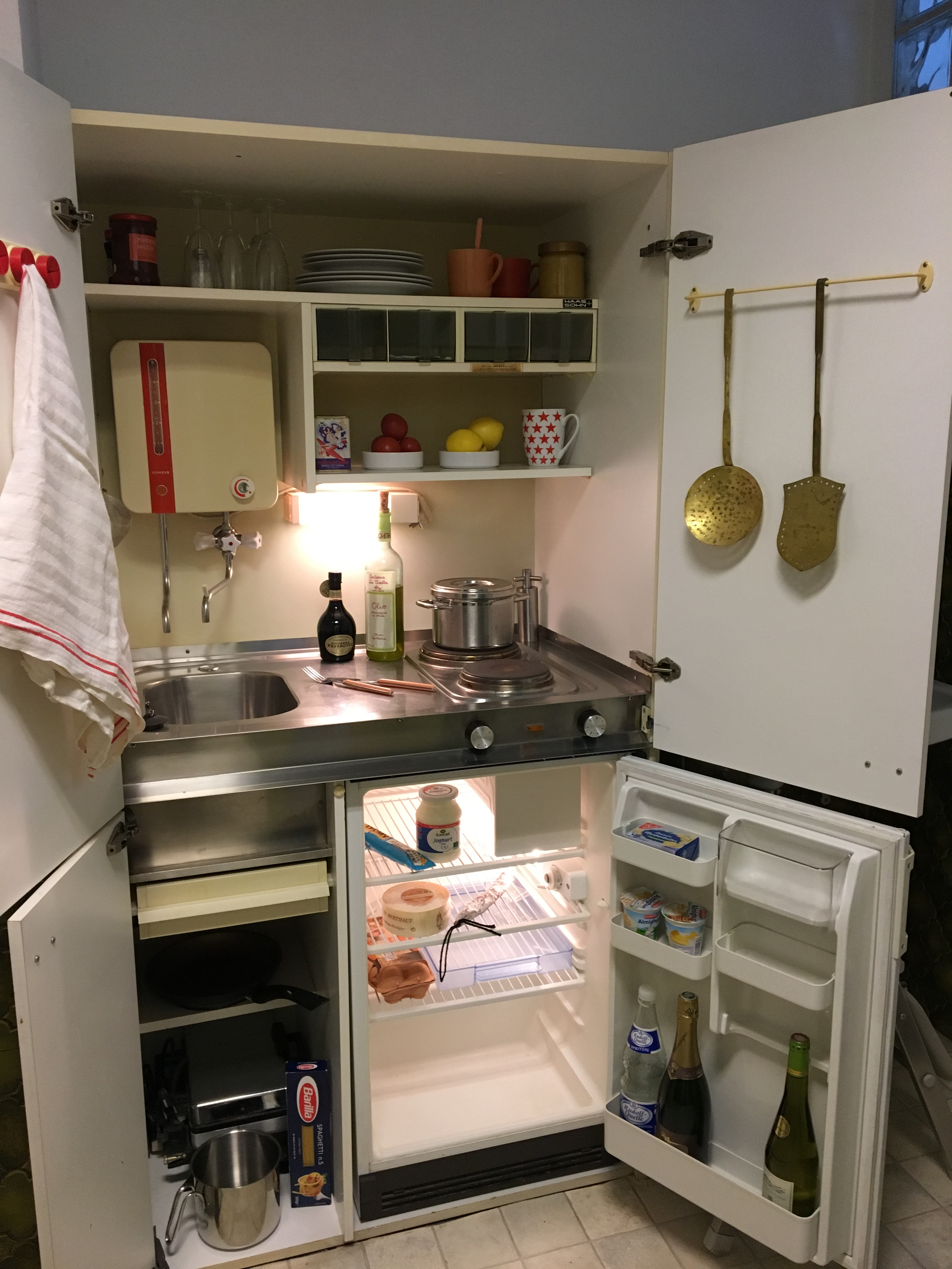 1954-1976 in series (assembly line) built cupboard kitchen. Equipment: hot water boiler, 2 hotplates, sink, refrigerator, dishes shelves etc. Manufacturer Haas & Sohn, Sinn Hessen. Design Hermann Fehling.